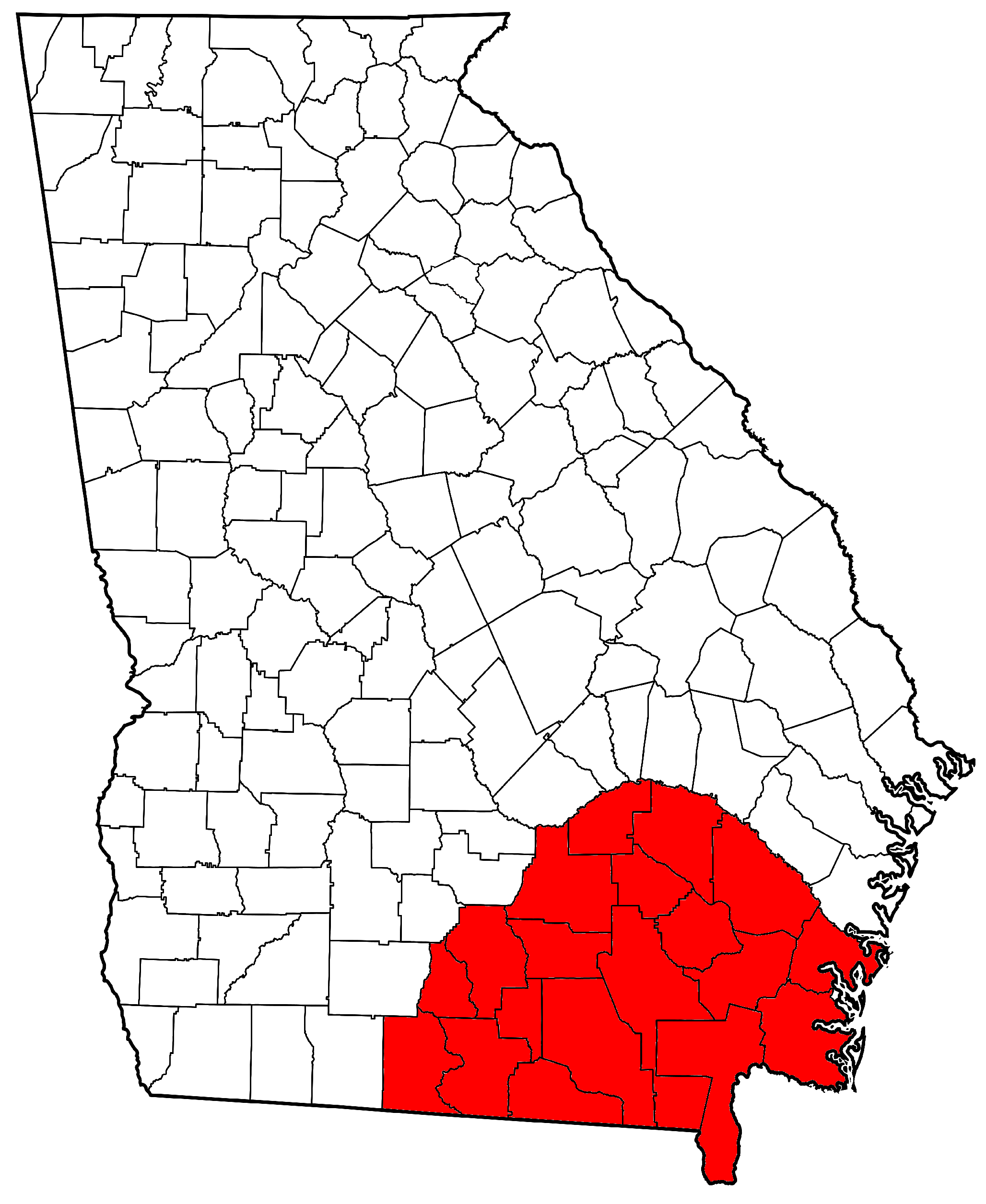 Map of Georgia showing the the southeast region.